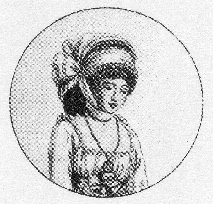 Copper-engraving in the "Journal des Luxus und der Moden", Weimar 1796. Illustration of a fashion-novelty for neck and head, invented by the prussian princess Luise von Mecklenburg-Strelitz.